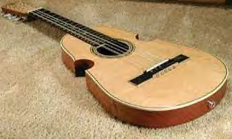 I took this picture of a William Cumpiano Cuatro in his workshop in Boston.